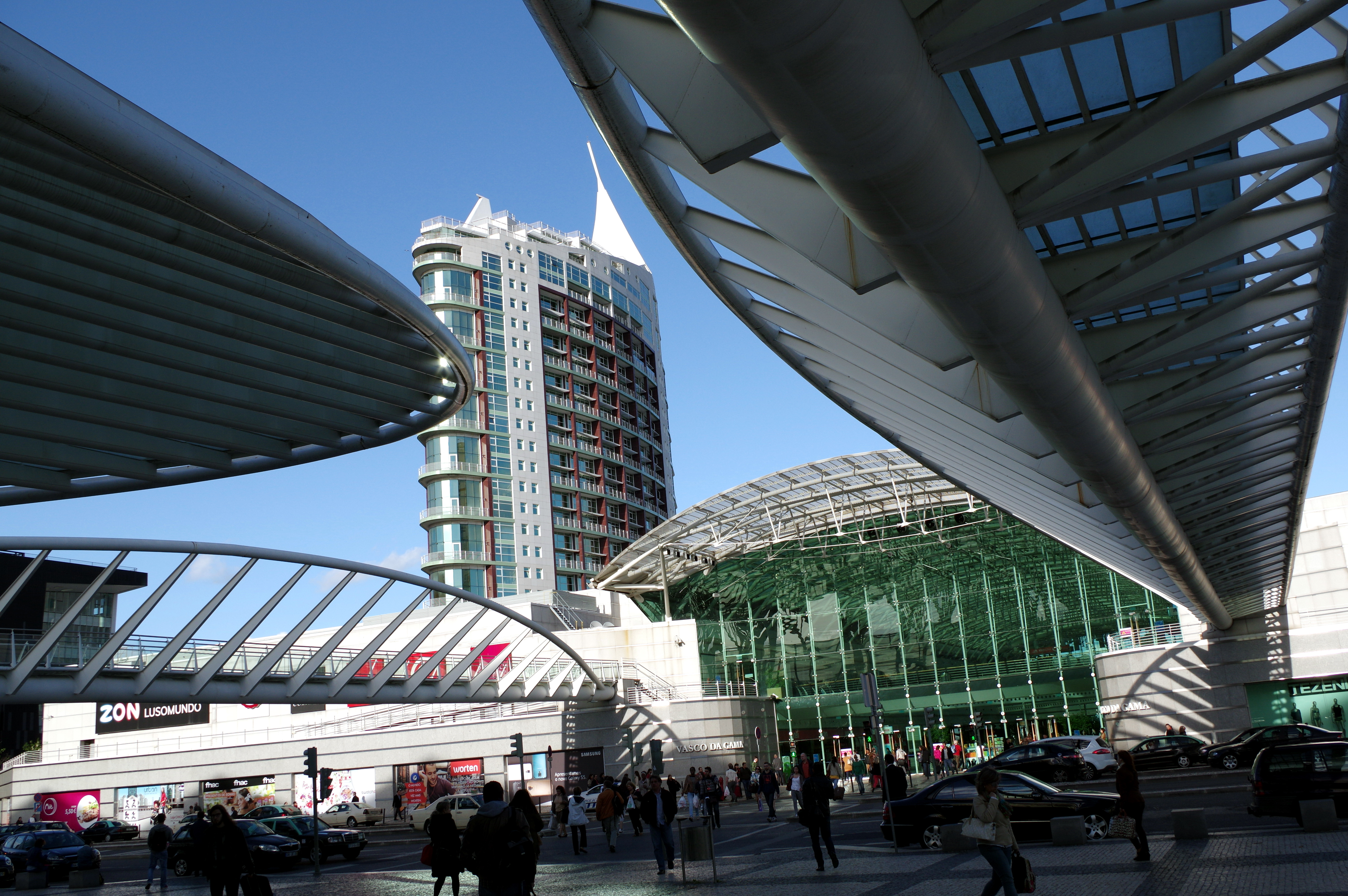 Gare do Oriente train station, Lisbon, Portugal